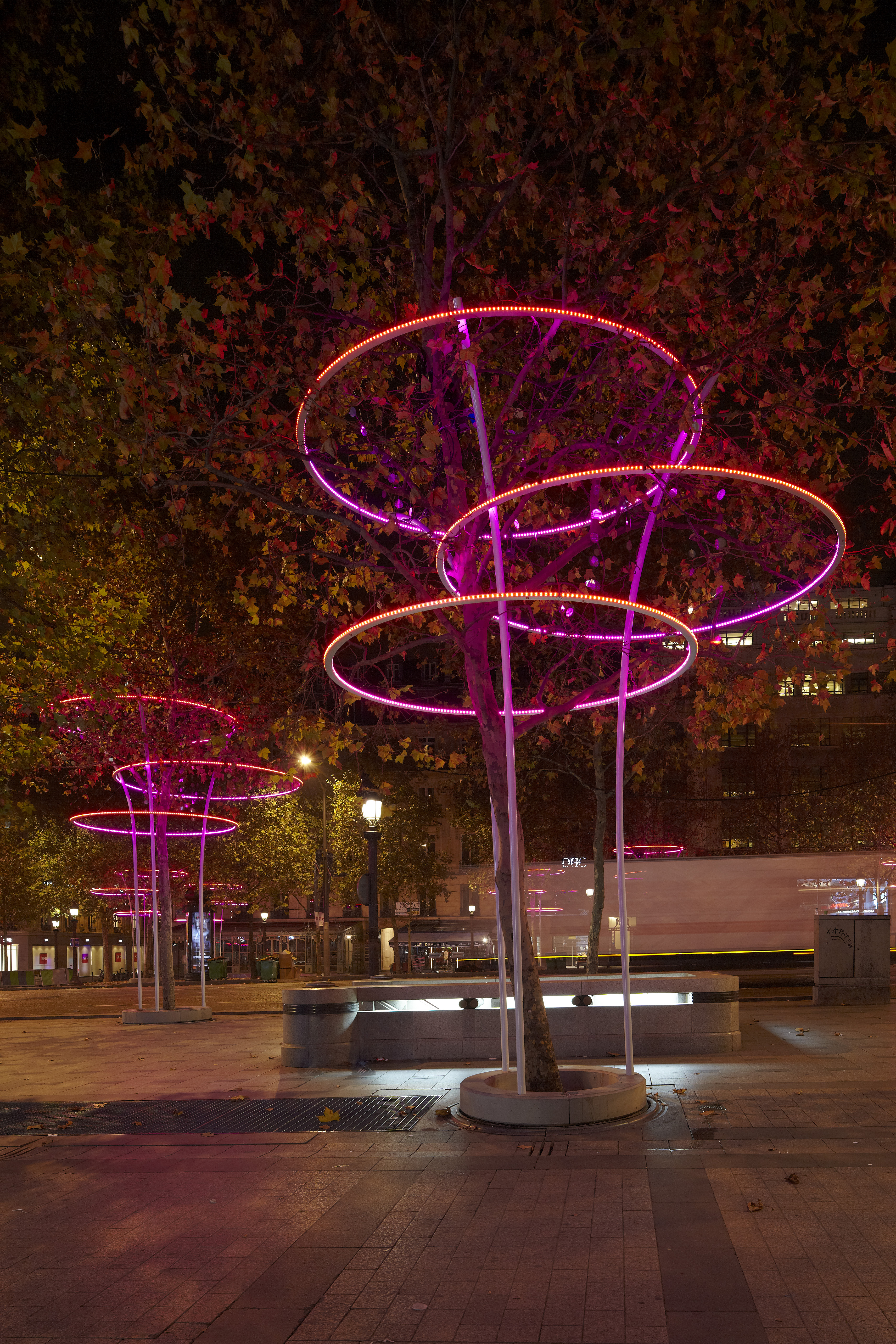 Koert Vermeulen principal lighting designer & Marcos Vinals Bassols artistic director: "Tree rings", 2011, LED tube lighting, festive christmas light art installation, Avenue des Champs-Elysées, Paris, France.